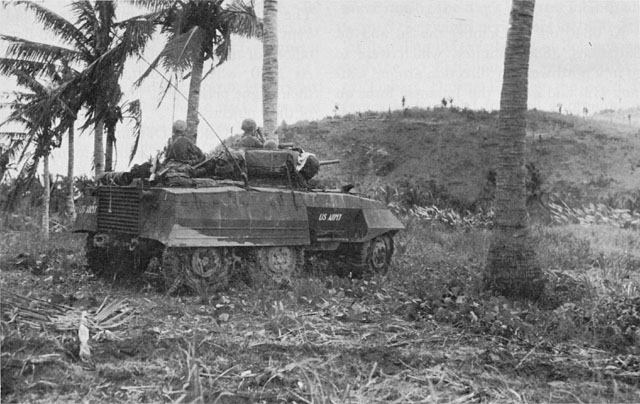 U.S. M8 armored personnel carrier at Labiranan Head sector, Leyte during the battle for Catmon Hill, October 21, 1944.